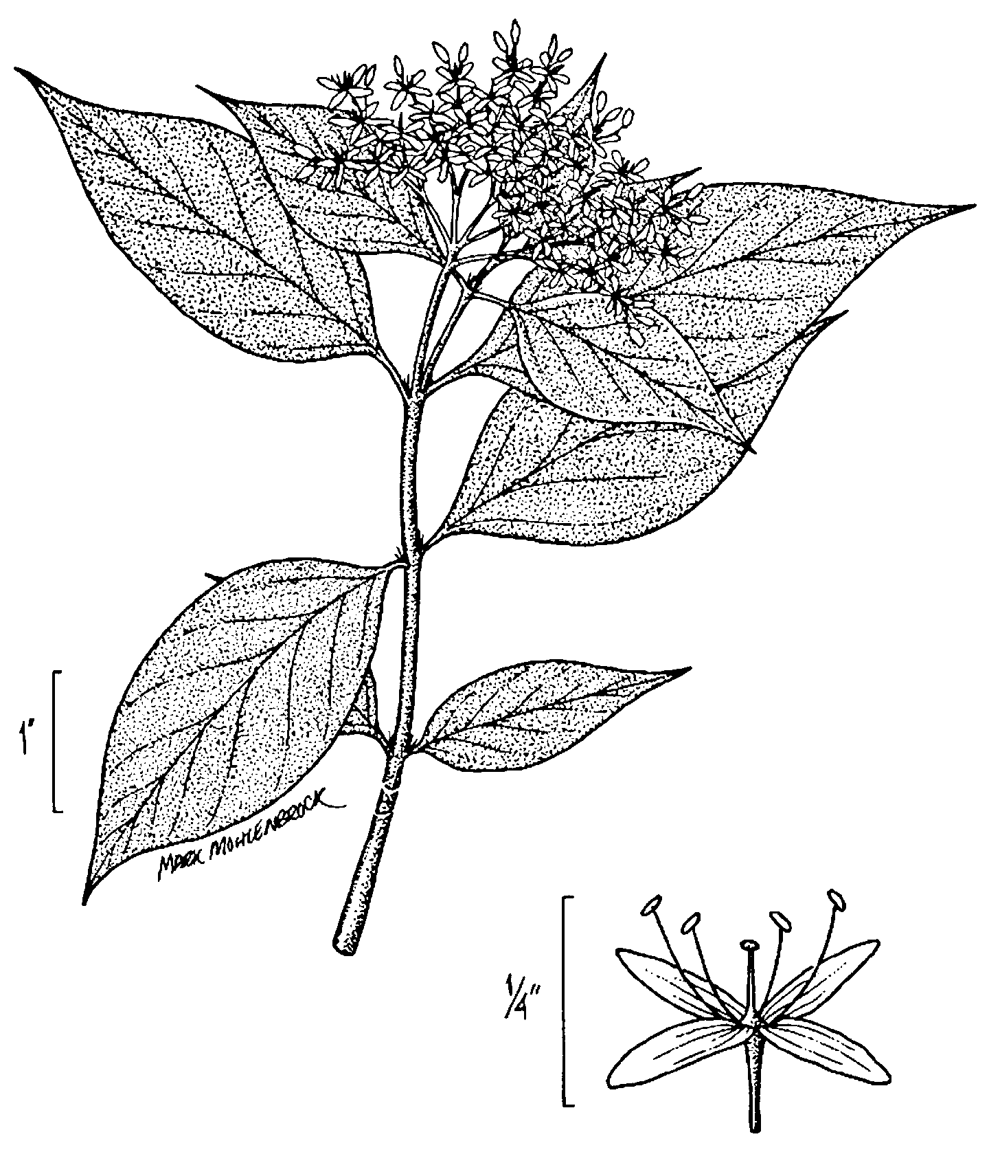 Illustration of Cornus drummondii